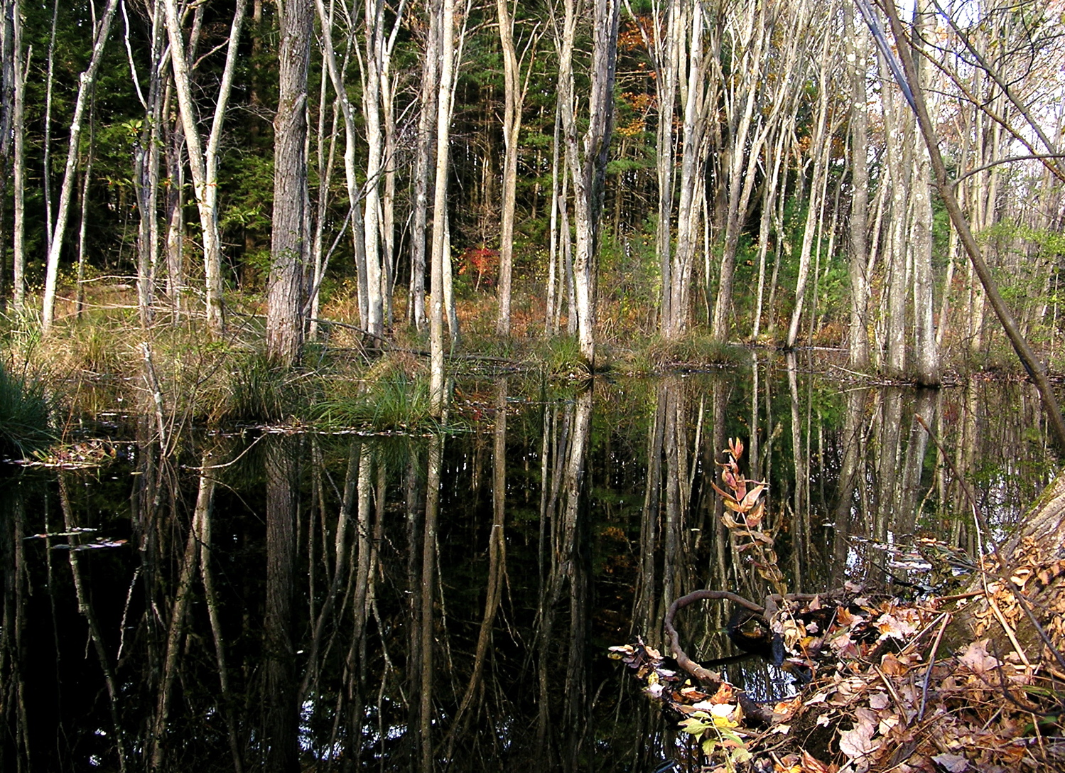 Reflections. Massachusetts woodland. Most trees here have dropped their leaves, allowing light to hit the water.